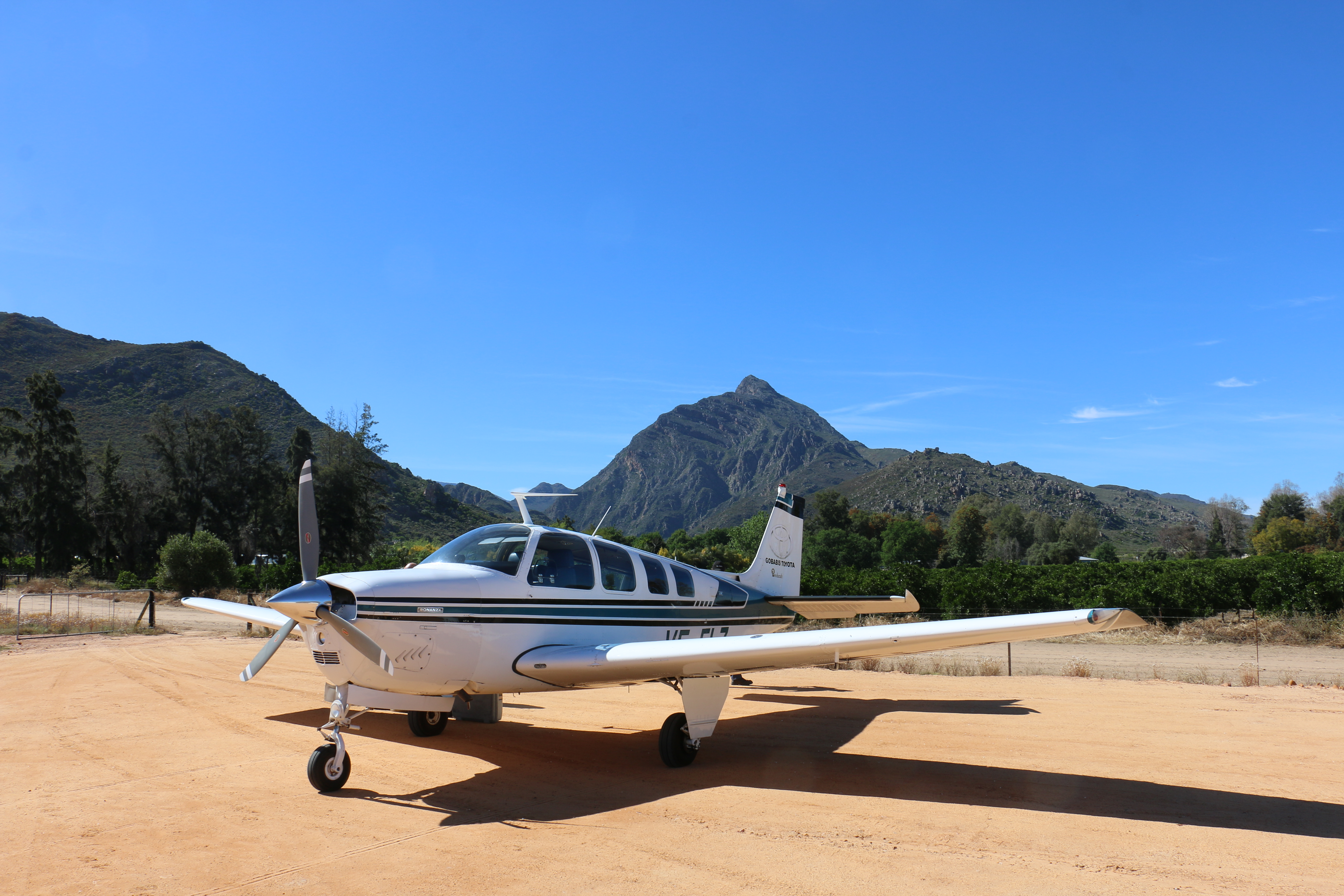 Beech Bonanza on a private landing strip in Citrusdal